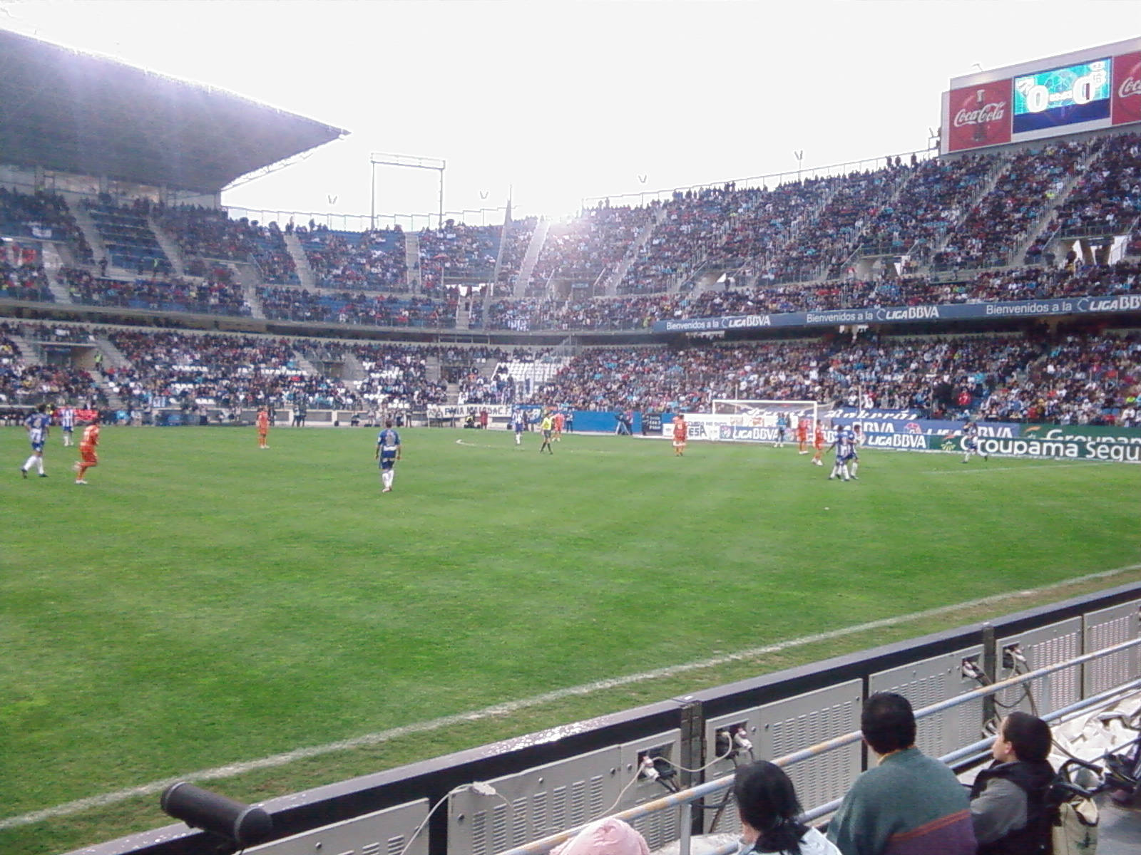 La Rosaleda Stadium in Málaga, Spain